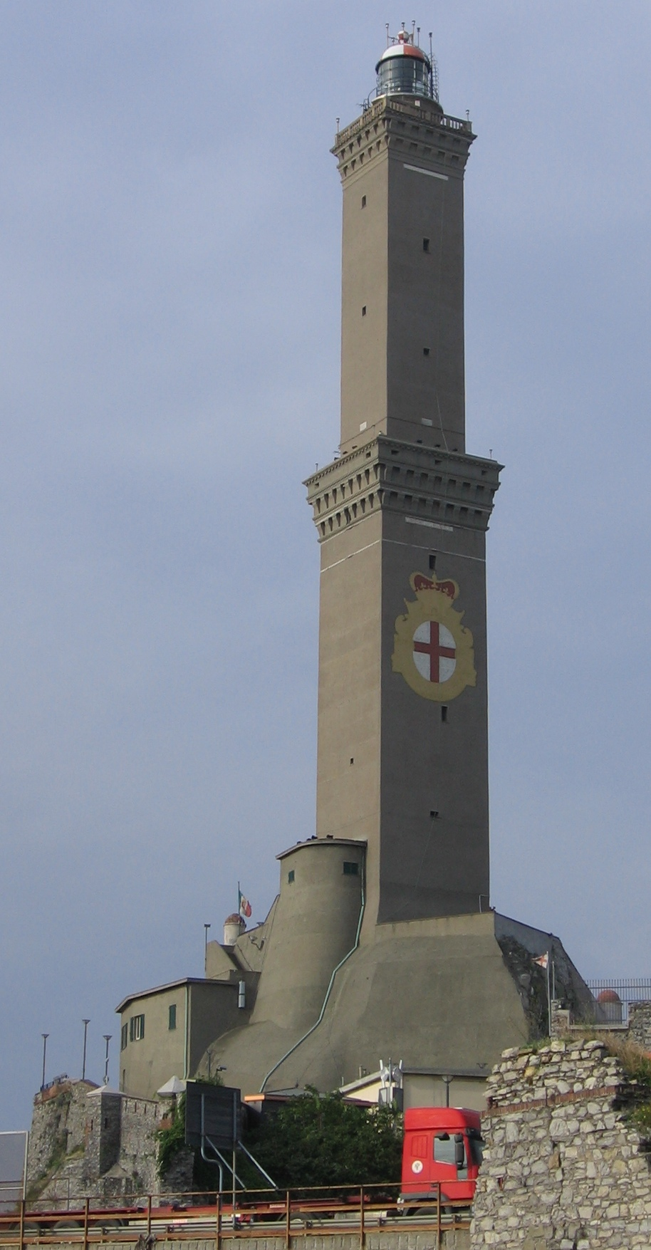 The lighthouse in Genova, Italy